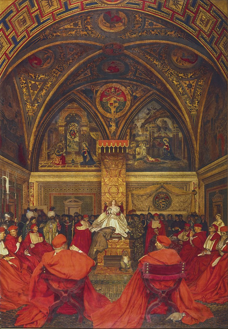 Lucrezia Borgia presiding over the Curia Romana in the absence of her father Pope Alexander VI